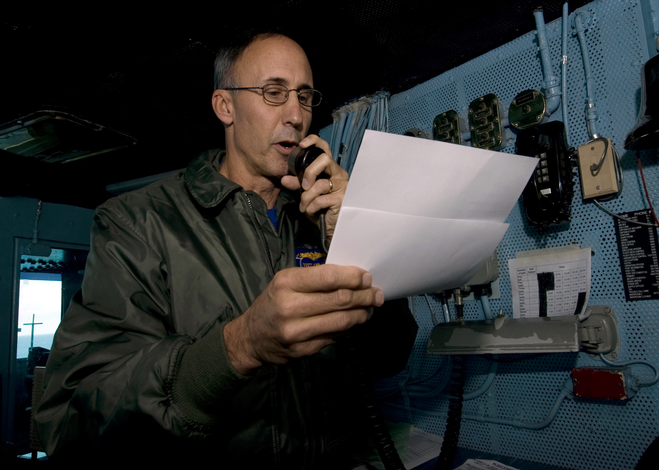 PACIFIC OCEAN (Dec. 6, 2010) Vice Adm. Scott R. Van Buskirk, commander of the U.S. 7th Fleet, addresses the crew of the aircraft carrier USS George Washington (CVN 73) over the 1MC. George Washington is participating in Keen Sword 2010 with the Japan Maritime Self-Defense Force through Dec. 10. (U.S. Navy photo by Mass Communication Specialist Specialist Cheng S. Yang/Released)